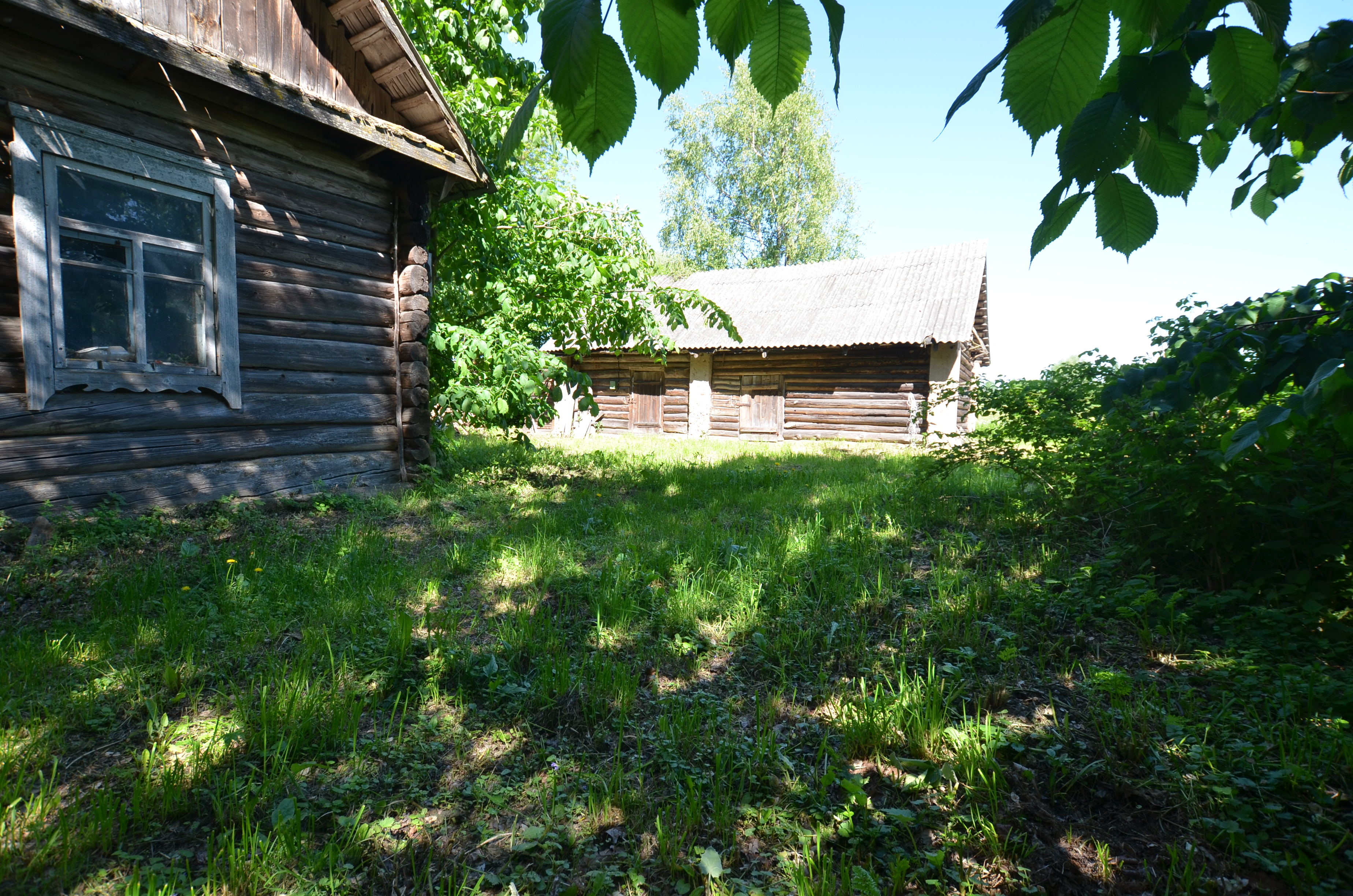 цэнтральная вуліца